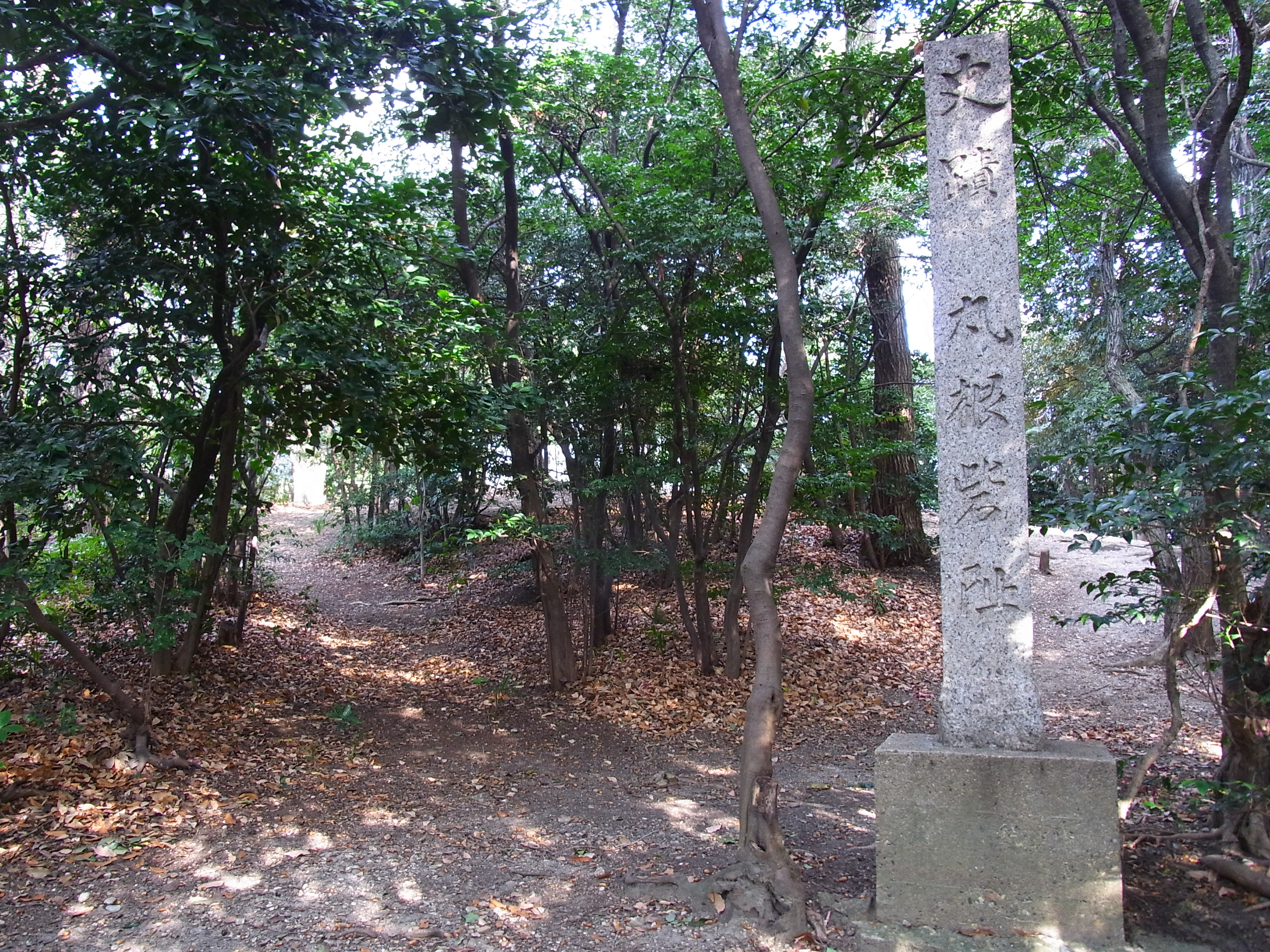 Marune-Toride (fortification) in Midori-ku ward, Nagoya.